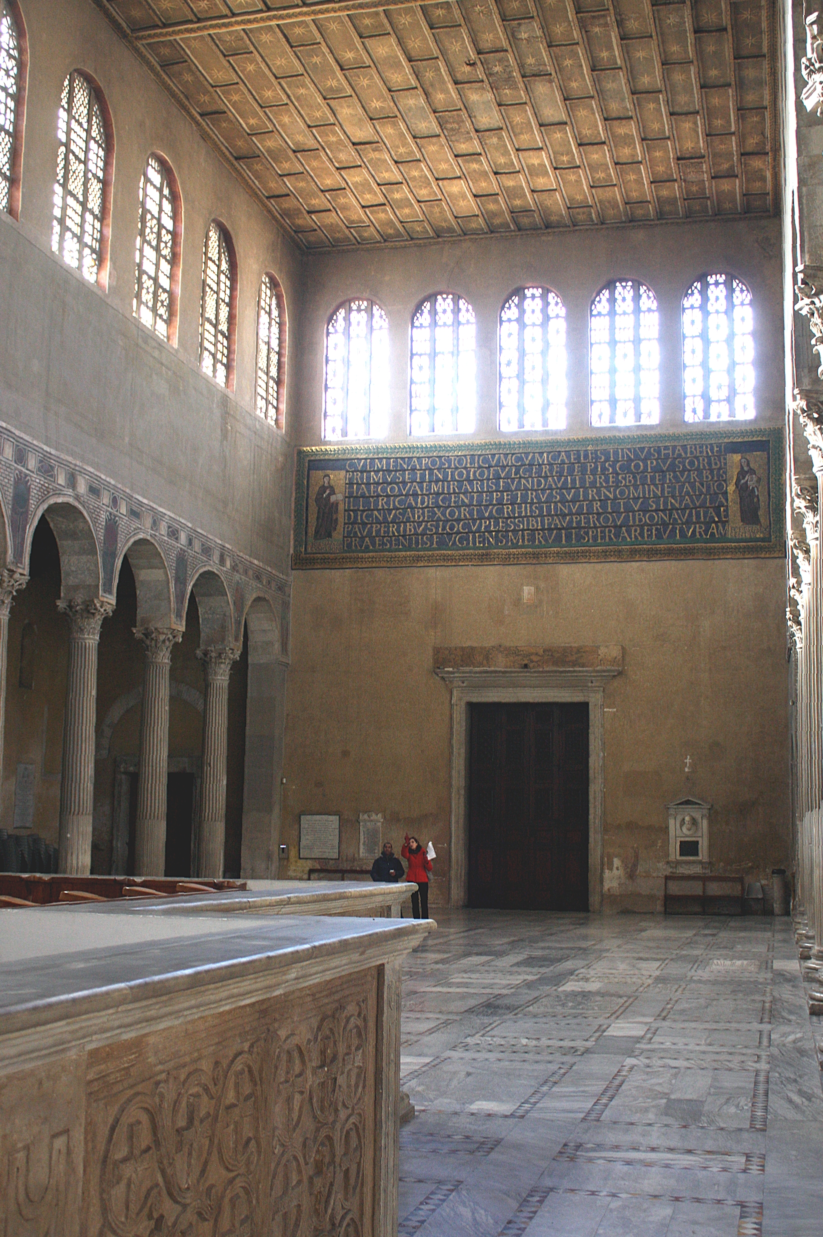 Rome, church Santa Sabina, inner view